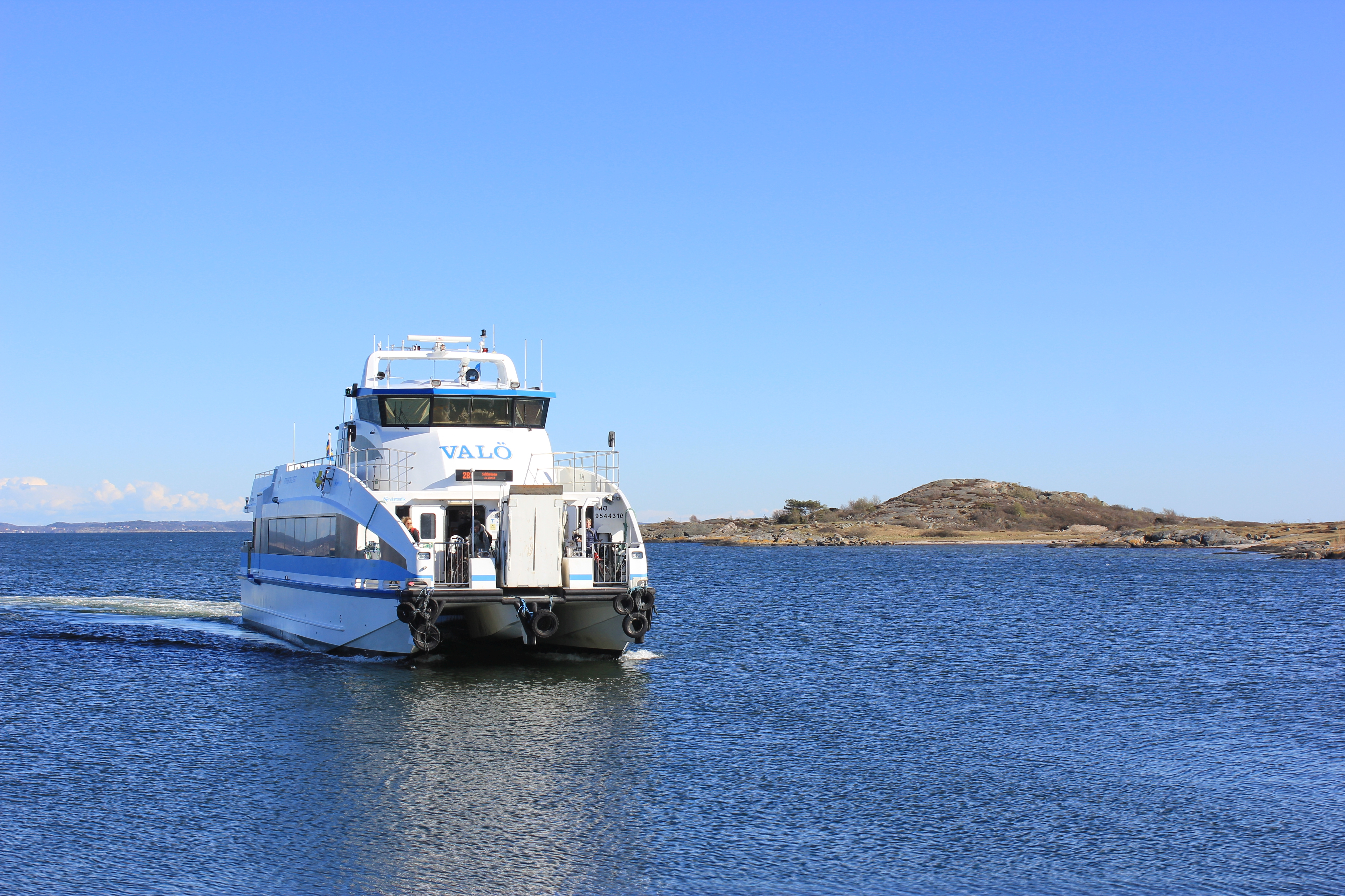 Vrångö - ferry Valö